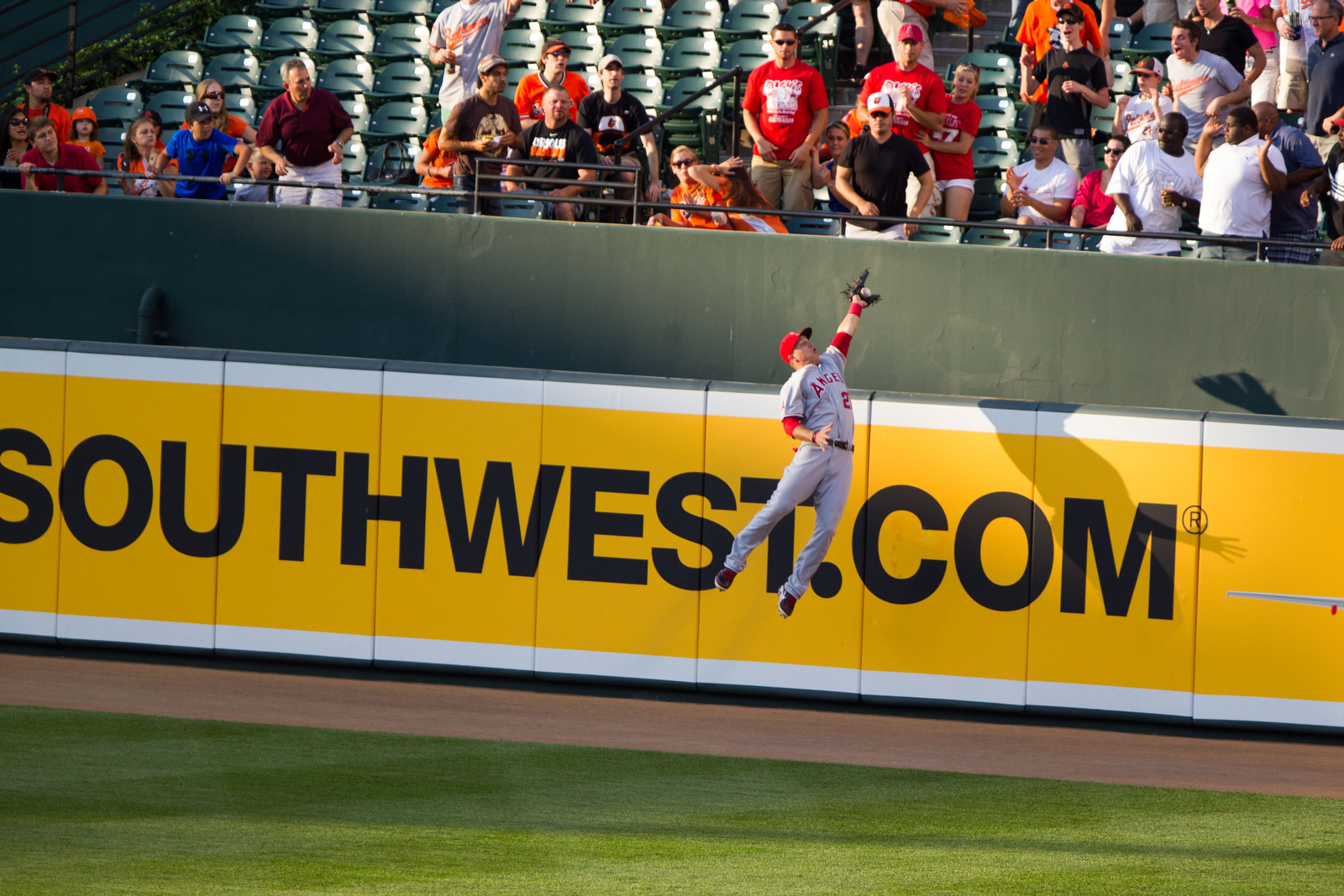 Los Angeles Angels center fielder Mike Trout catches a fly ball by Baltimore Orioles' J.J. Hardy during the first inning of a baseball game on Wednesday, June 27, 2012, in Baltimore. Some have called it the catch of the year.